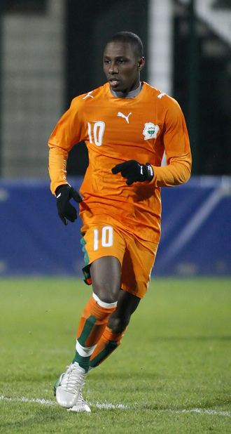 Ivorian player Gilles Yapi Yapo during match Guinea vs. Côte d'Ivoire at Stade Robert Diochon, Rouen, France.